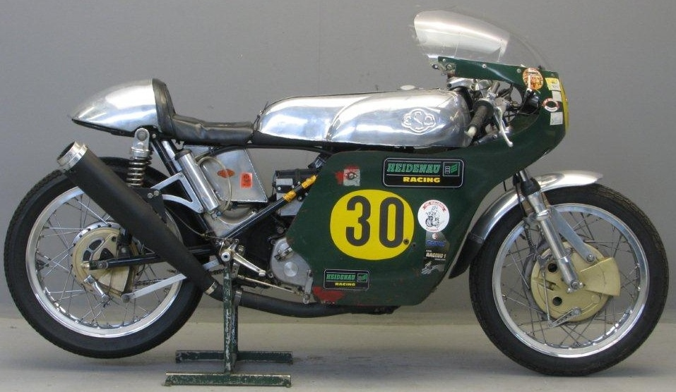 1964 Eso 500 cc racing motorcycle